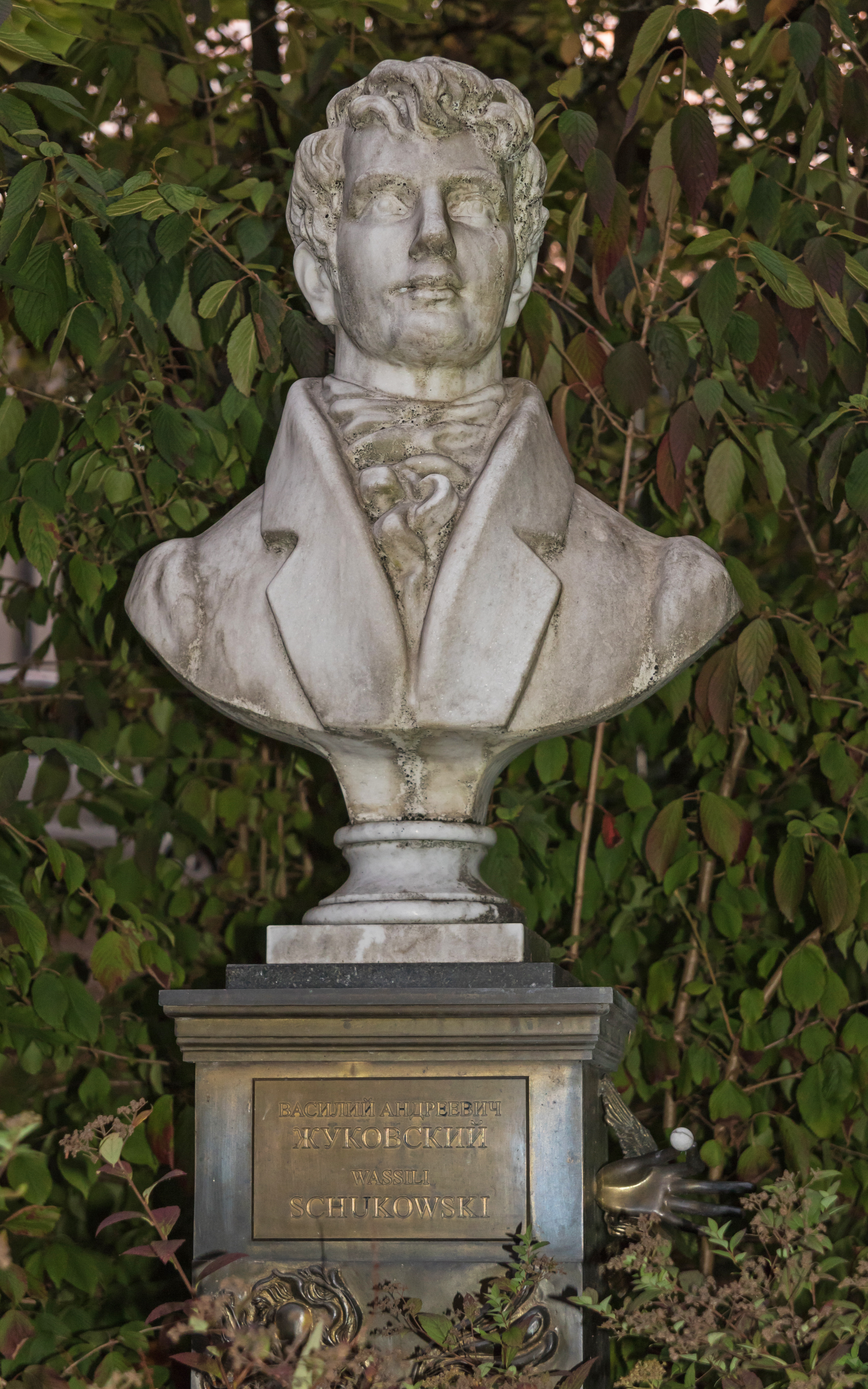 Bust of V.A.Zhukovsky in Baden-Baden (BW, Germany).